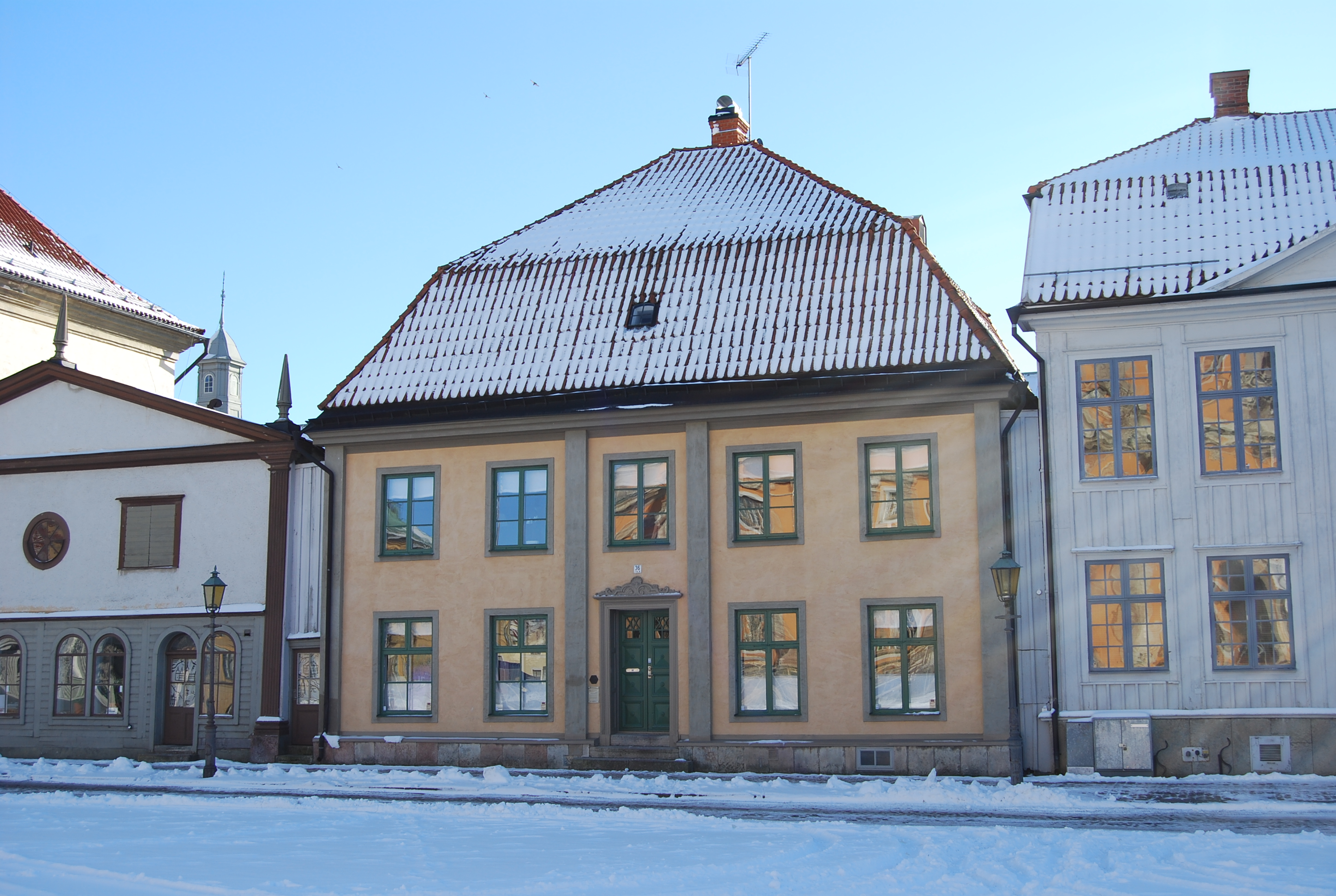 Rådmannen 6 in Kalmar